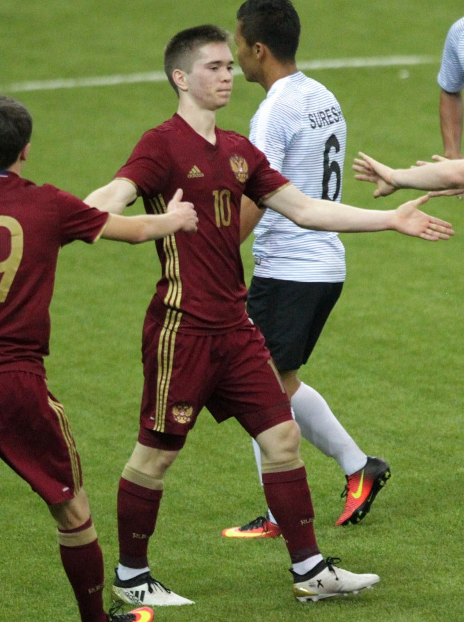 Aleksandr Rudenko with Russia U-18 in a game against India U-18 at the Granatkin Memorial.